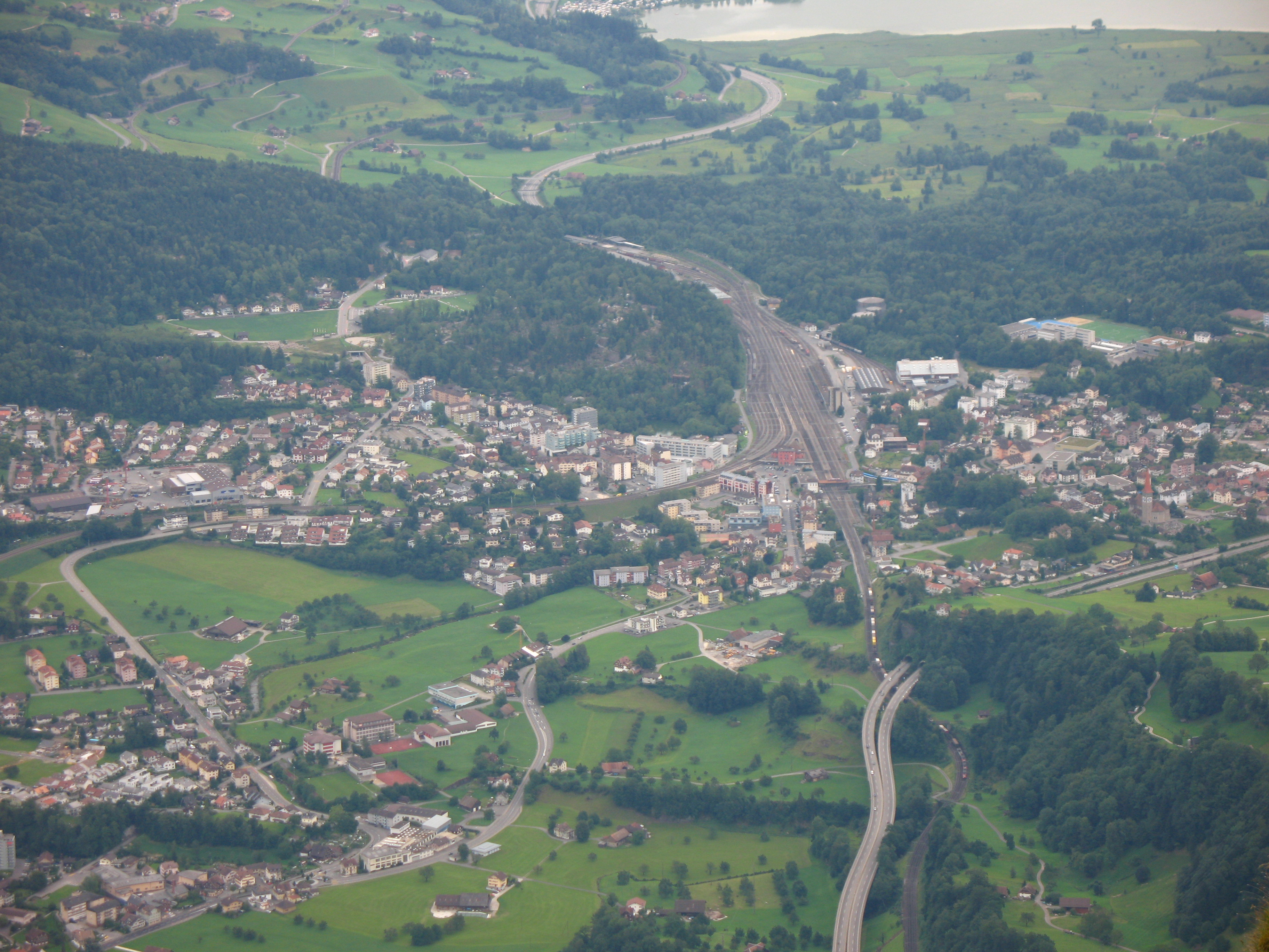 Goldau viewed from the summit of Rigi, Switzerland